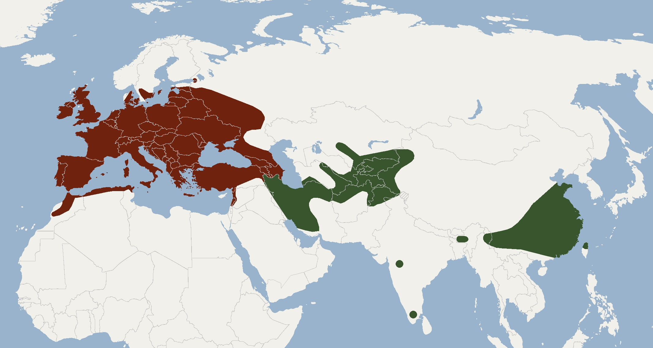 According to . subspecies range: P.p.pipistrellus in brown, P.p.aladdin in green